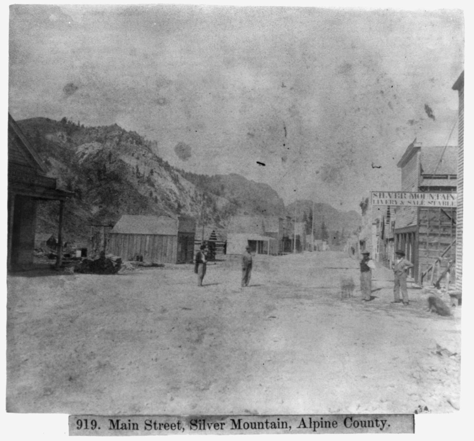 Title: Main Street, Silver Mountain, Alpine County Abstract/medium: 1 photographic print : half stereograph, albumen.